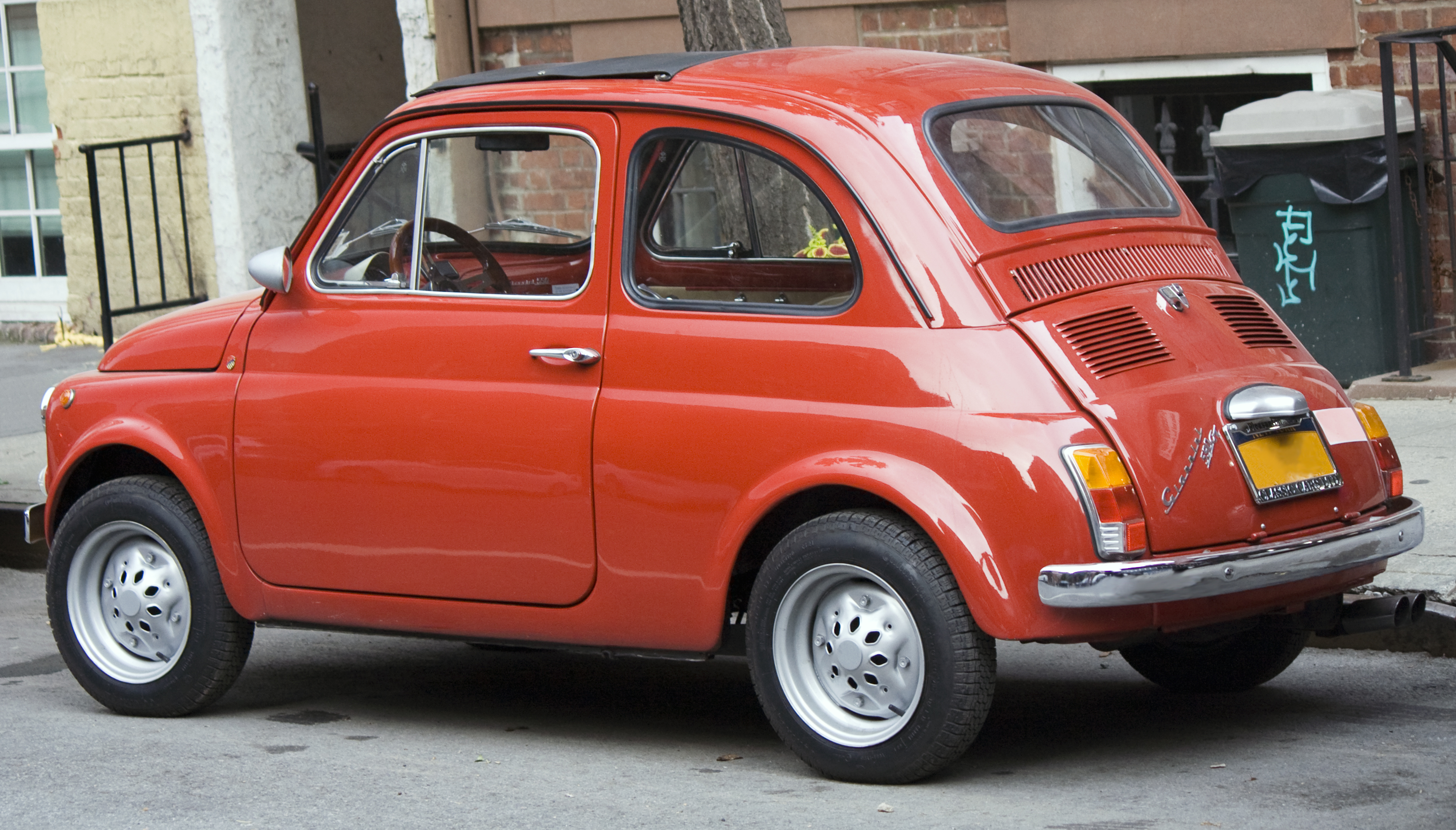 1968 Giannini 590GT, rear view